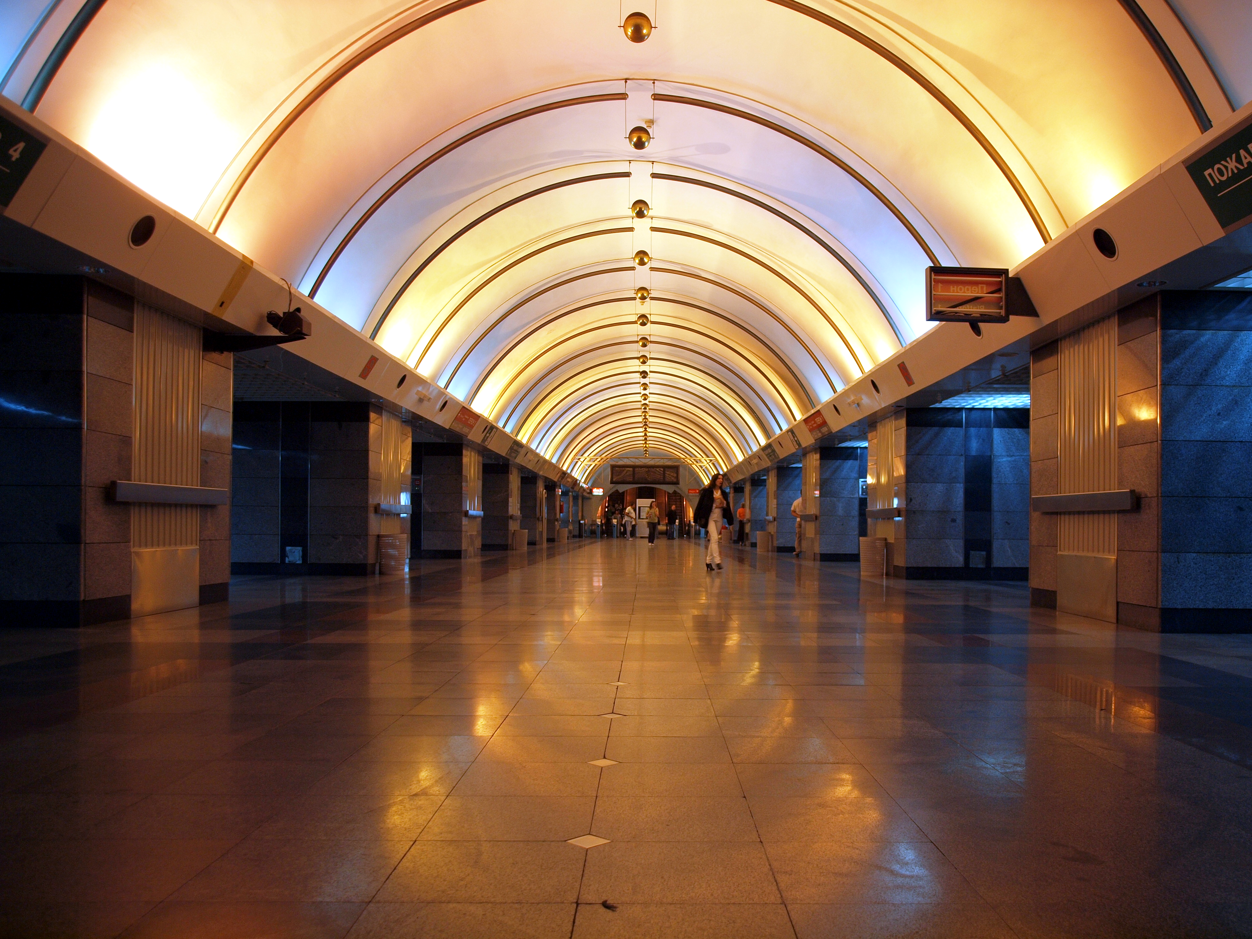 Underground station of Beovoz at Vukov spomenik, Belgrade. Construction finished in 1995.